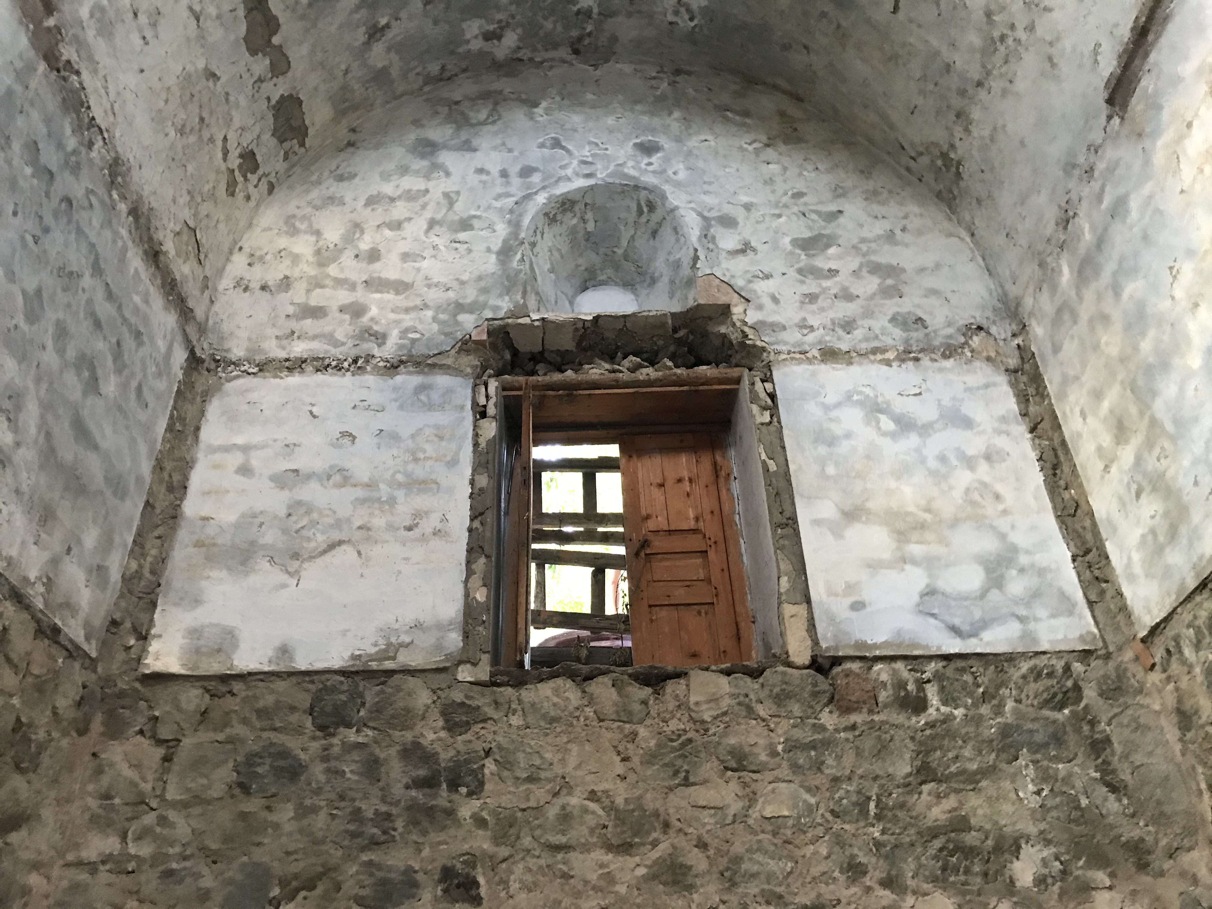 Doliskana interior north, 2019